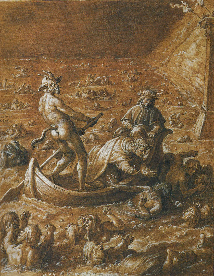 Illustration of Dante's Inferno, Canto 8